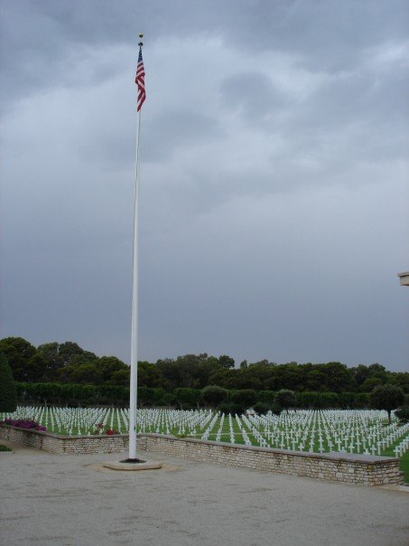 The North African American Cemetery and Memorial 2006